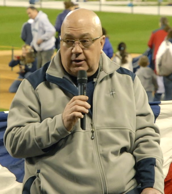 Seattle Mariners GM Jack Zduriencik at Mariners FanFest 2011.